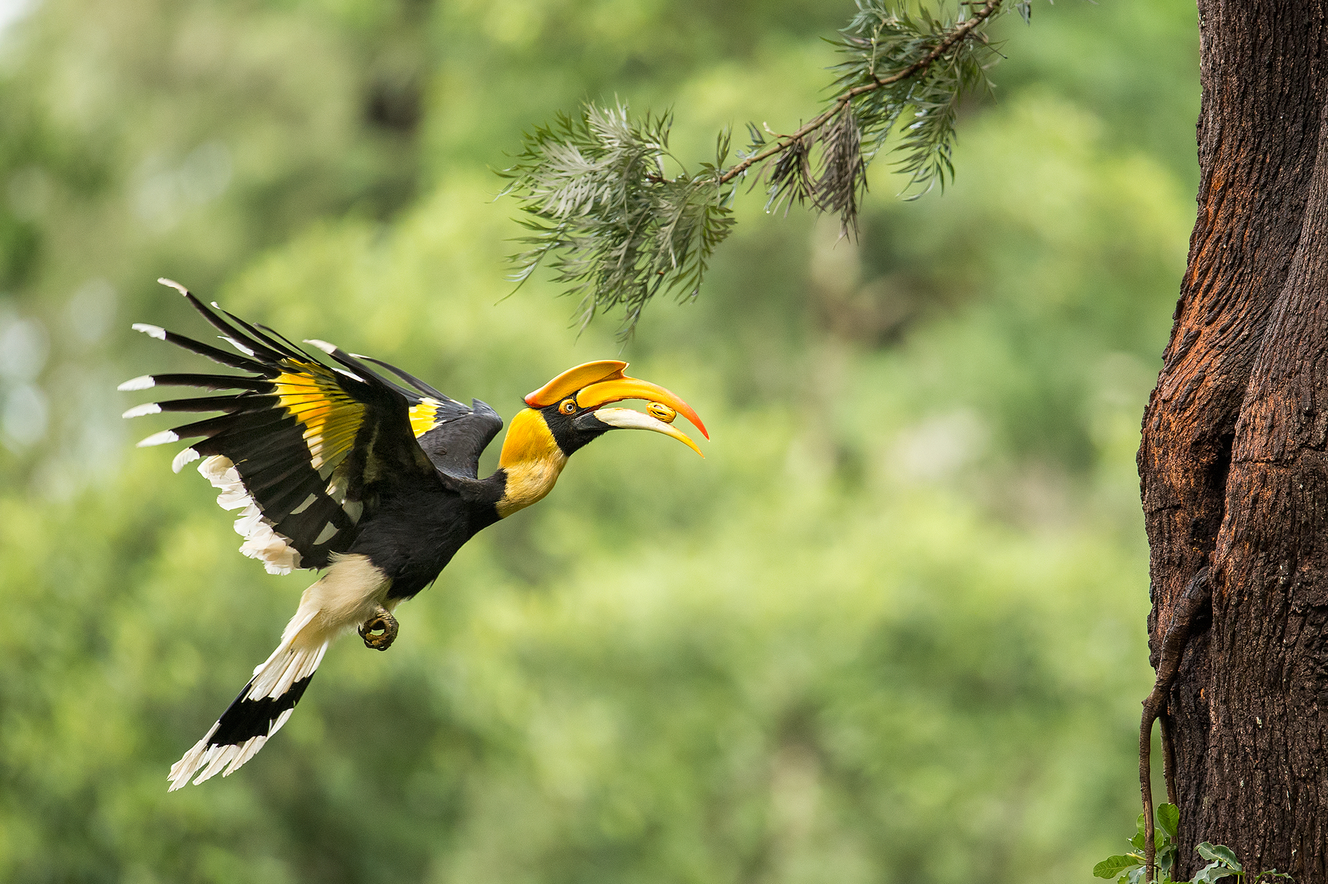 A female Great Hornbill carries food in her beak to feed the chicks.